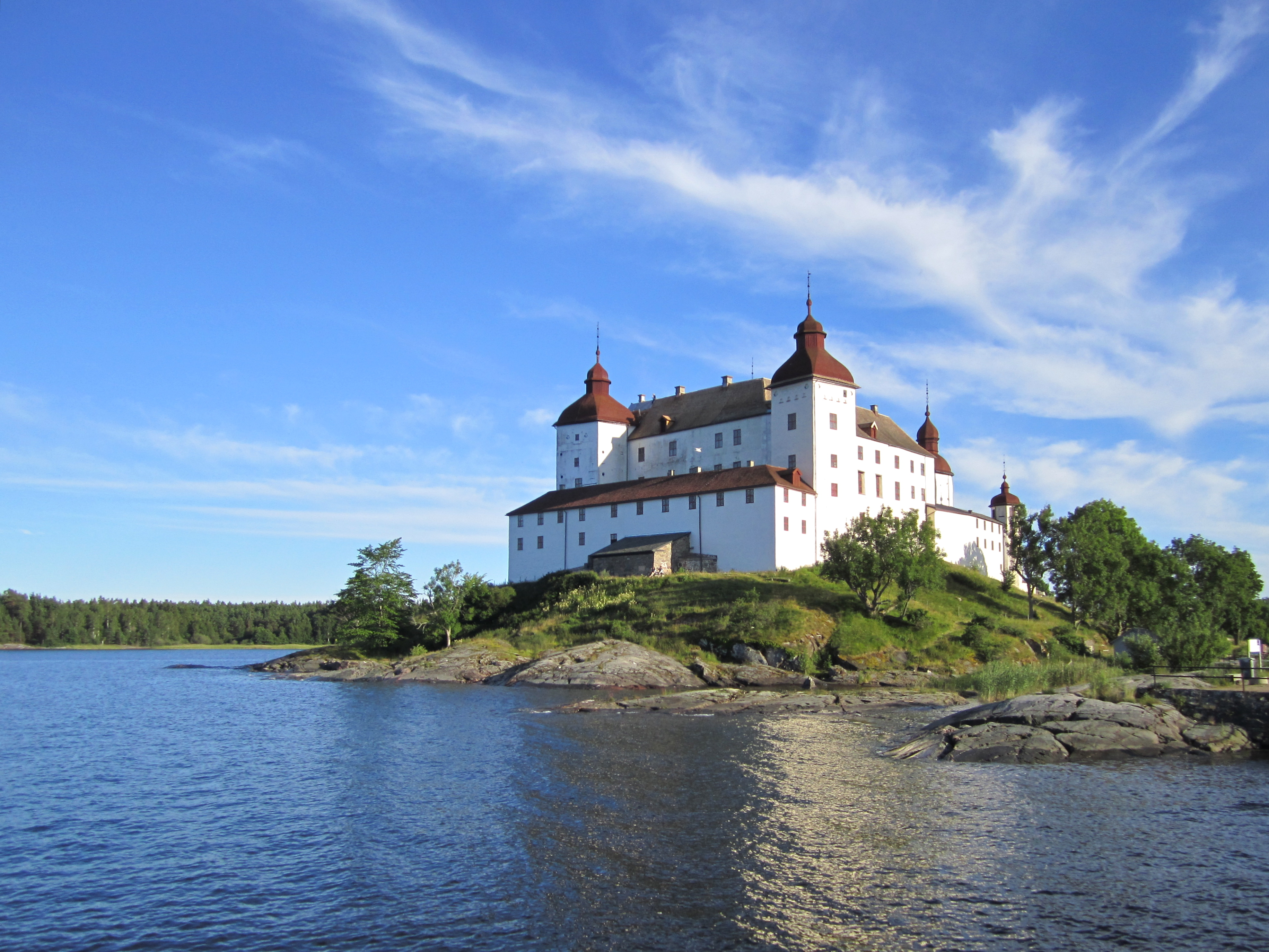 Läckö Caste seen from northwest